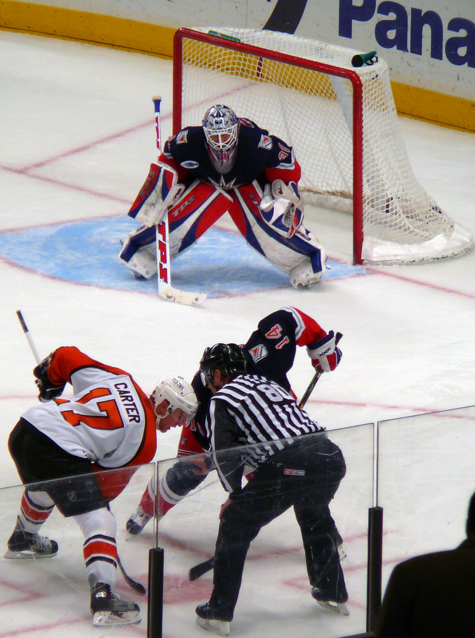 Faceoff Jeff Carter, N.Y. Rangers vs. Philadelphia Flyers, Madison Square Garden, January 4, 2007, in the background goaltender Henrik Lundquist